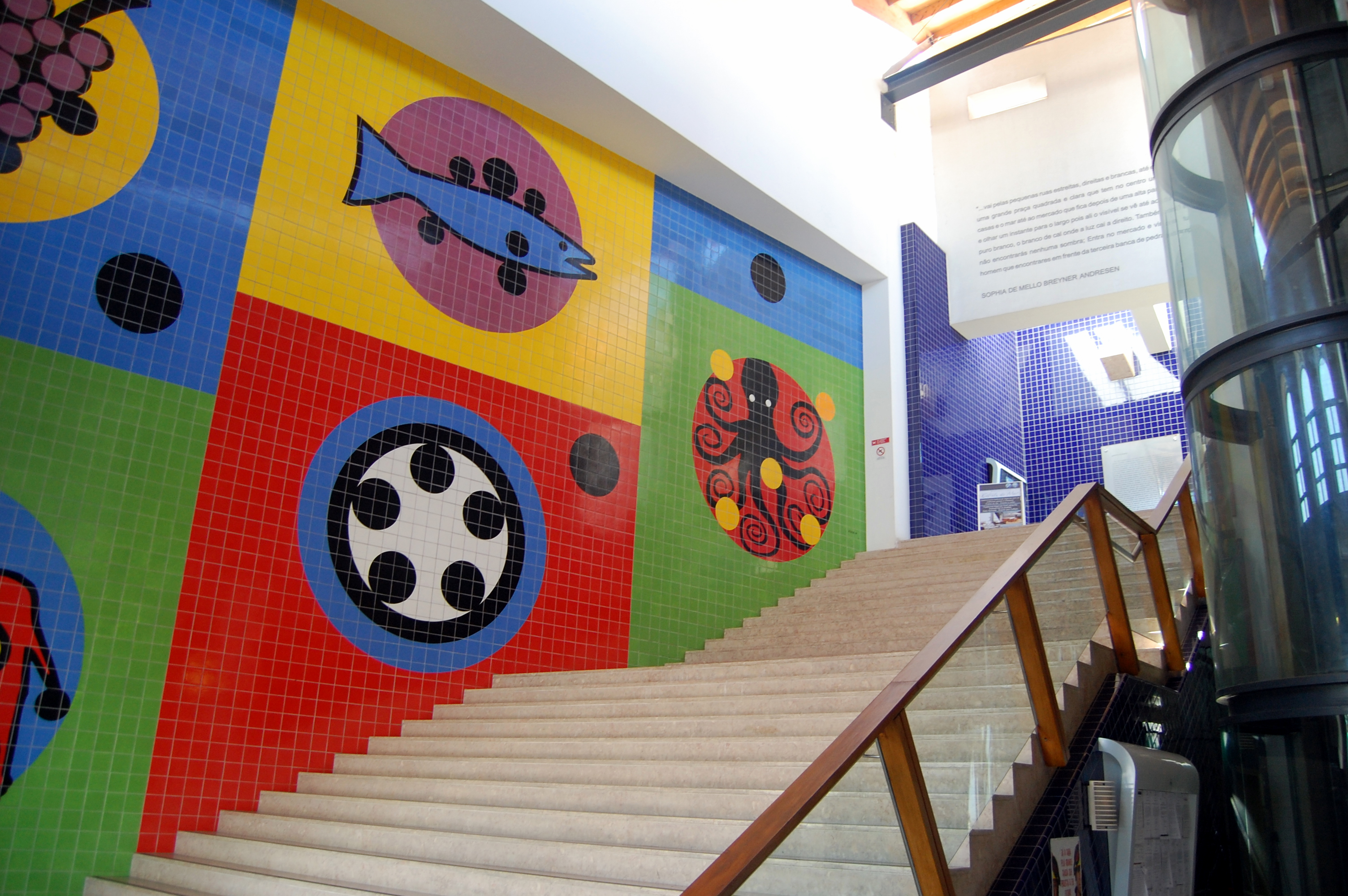 Interior architecture of the modernised fishing market at the Av. dos Descobrimentos in Lagos, Portugal.